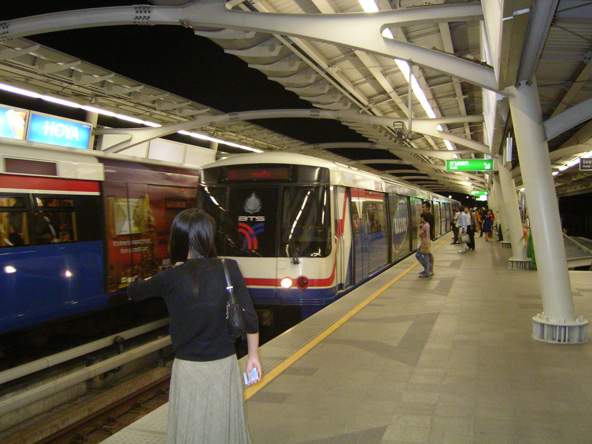 A skytrain BTS station in Bangkok, Thailand.